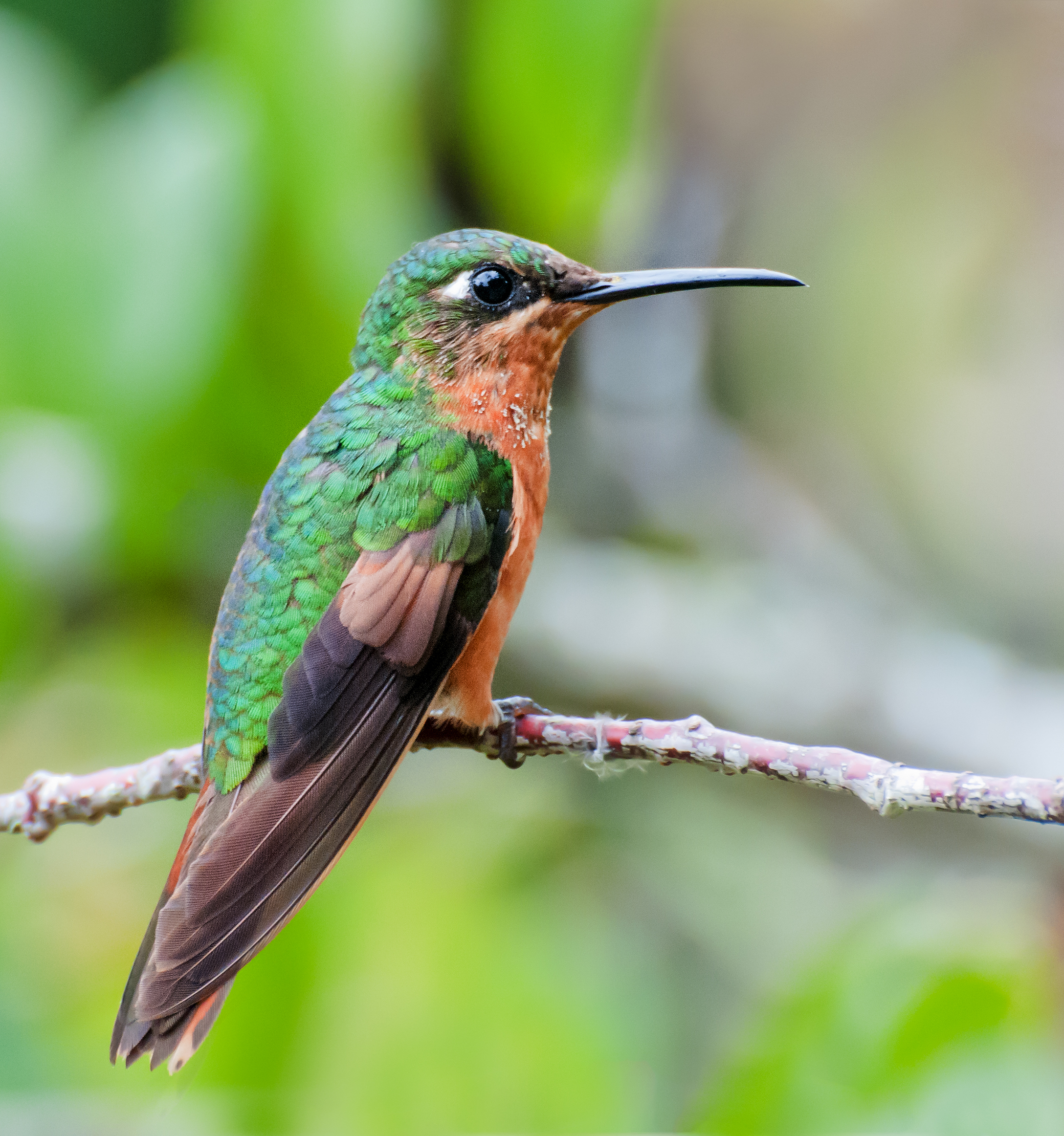 A female Brazilian Ruby in Campos do Jordão, São Paulo, Brazil.